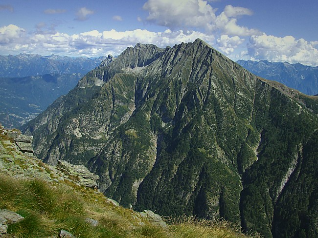 Pizzo Pioltone (2610 m) Picture taken by user Idefix august 2006